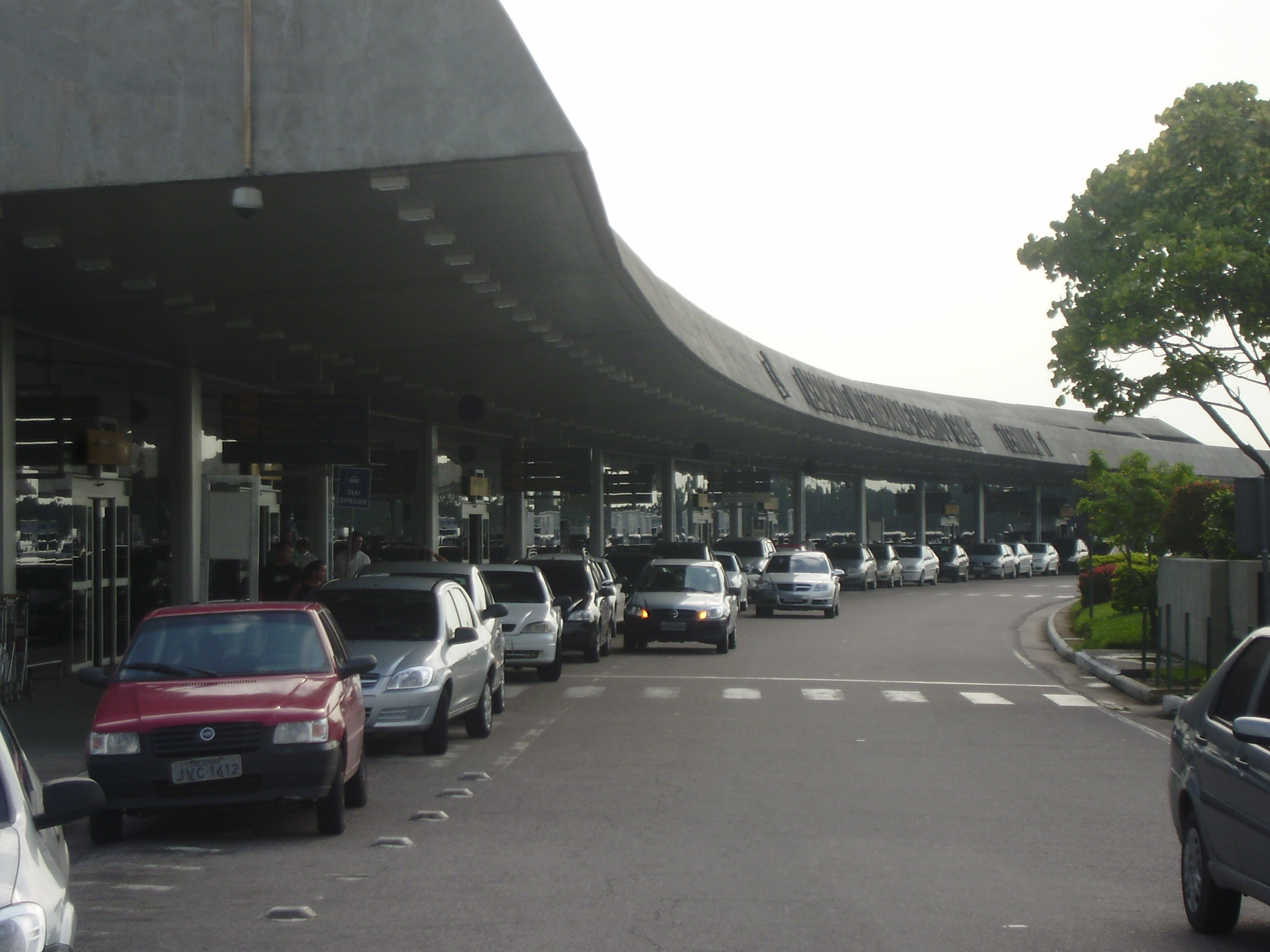 Manaus International Airport